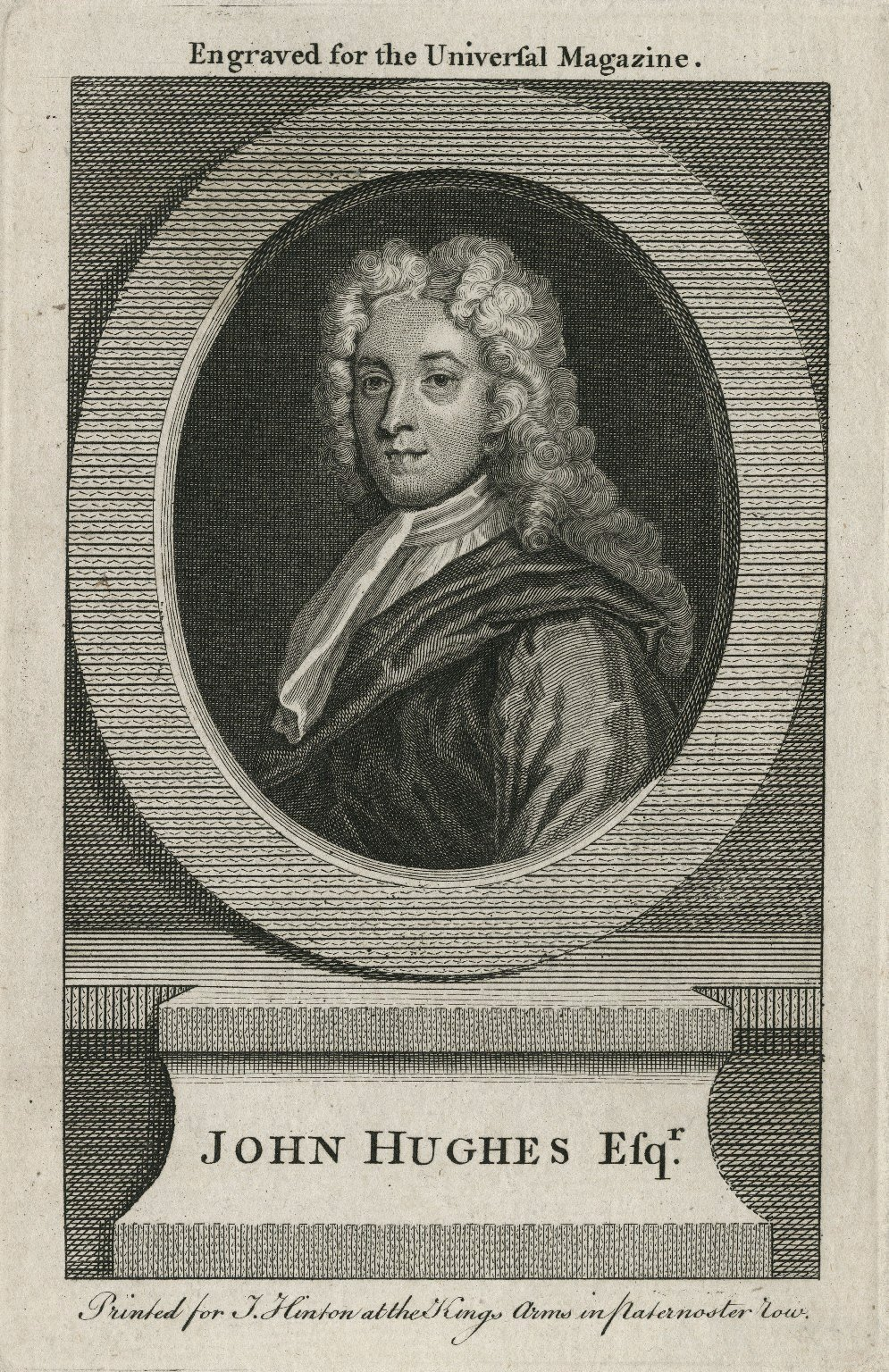 A steel engraving from Godfrey Kneller’s 1718 portrait of the poet John Hughes (1677-1729) by Gerard Vandergucht. It was first used in his Poems on Several Occasion (1735) and later for a 1754 issue of The Universal Magazine.